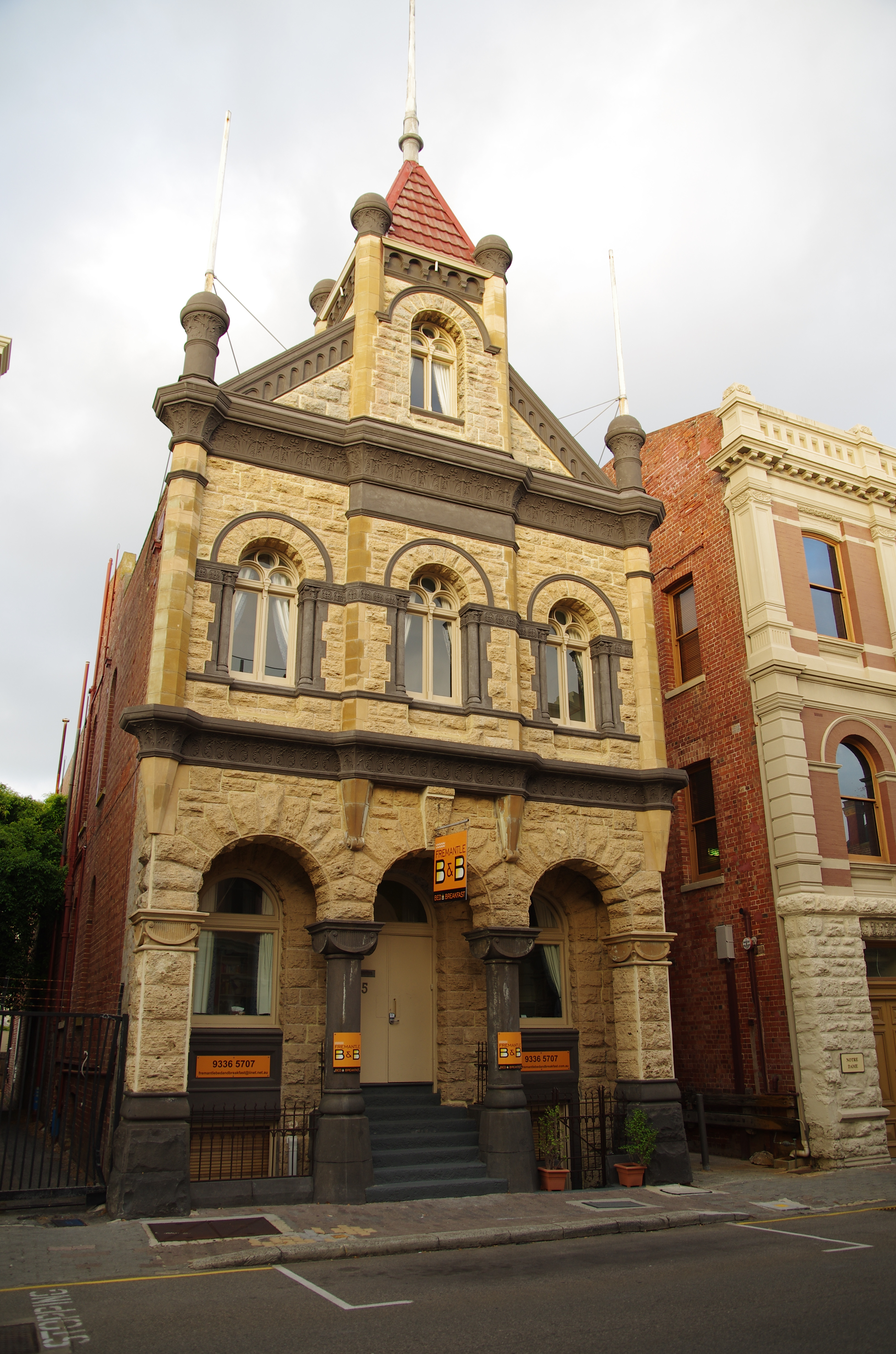 Object location32° 03′ 18.46″ S, 115° 44′ 34.78″ E Tarantella Night Club